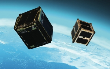 Artist's concept of the Intelligent Payload Experiment (IPEX) and M-Cubed/COVE-2, two NASA Earth-orbiting cube satellites ("CubeSats") that were launched as part of the NROL-39 GEMSat mission from California's Vandenberg Air Force Base on Dec. 5, 2013.